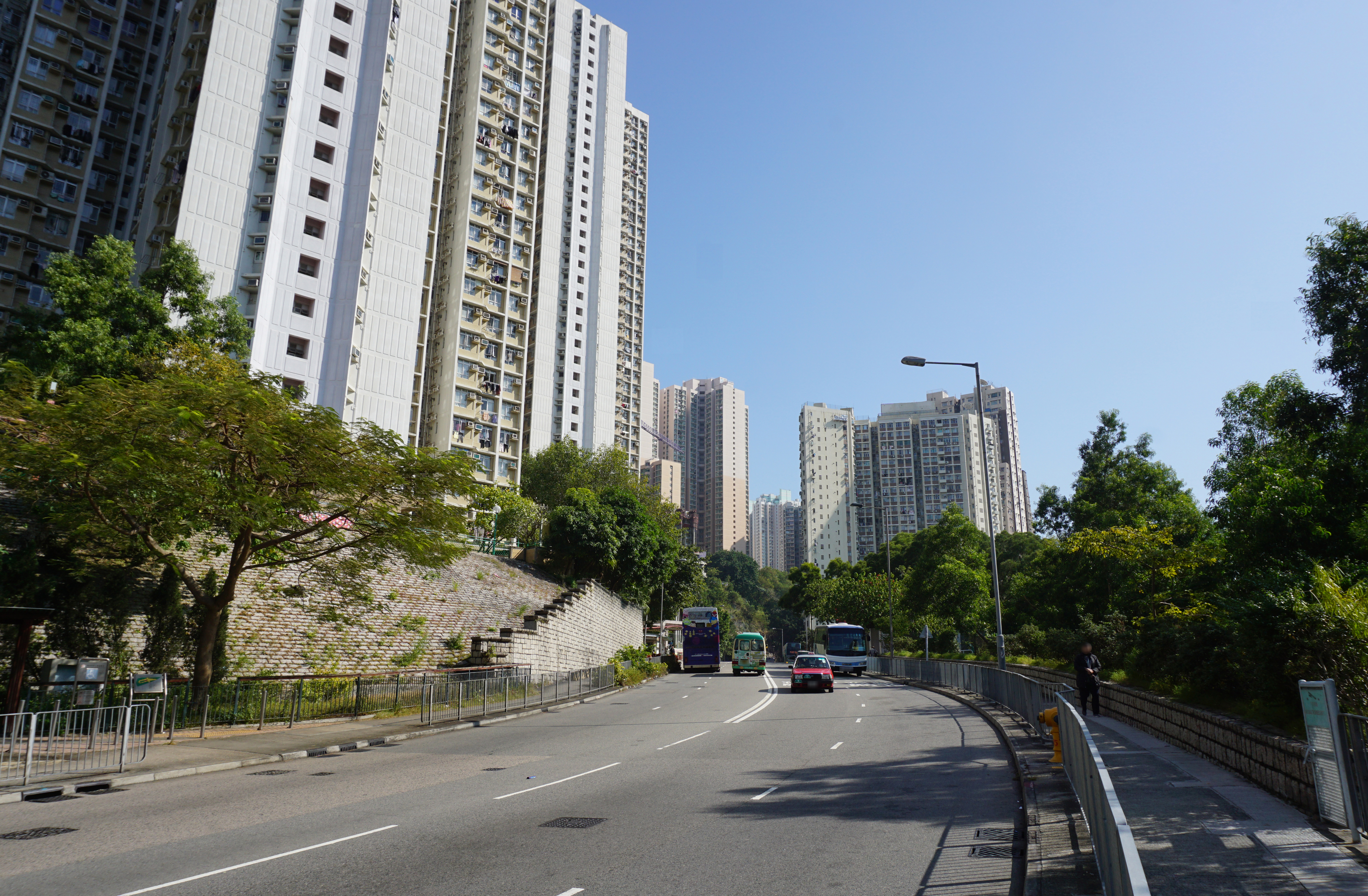 Hiu Kwong Street in Sau Mau Ping, Hong Kong.